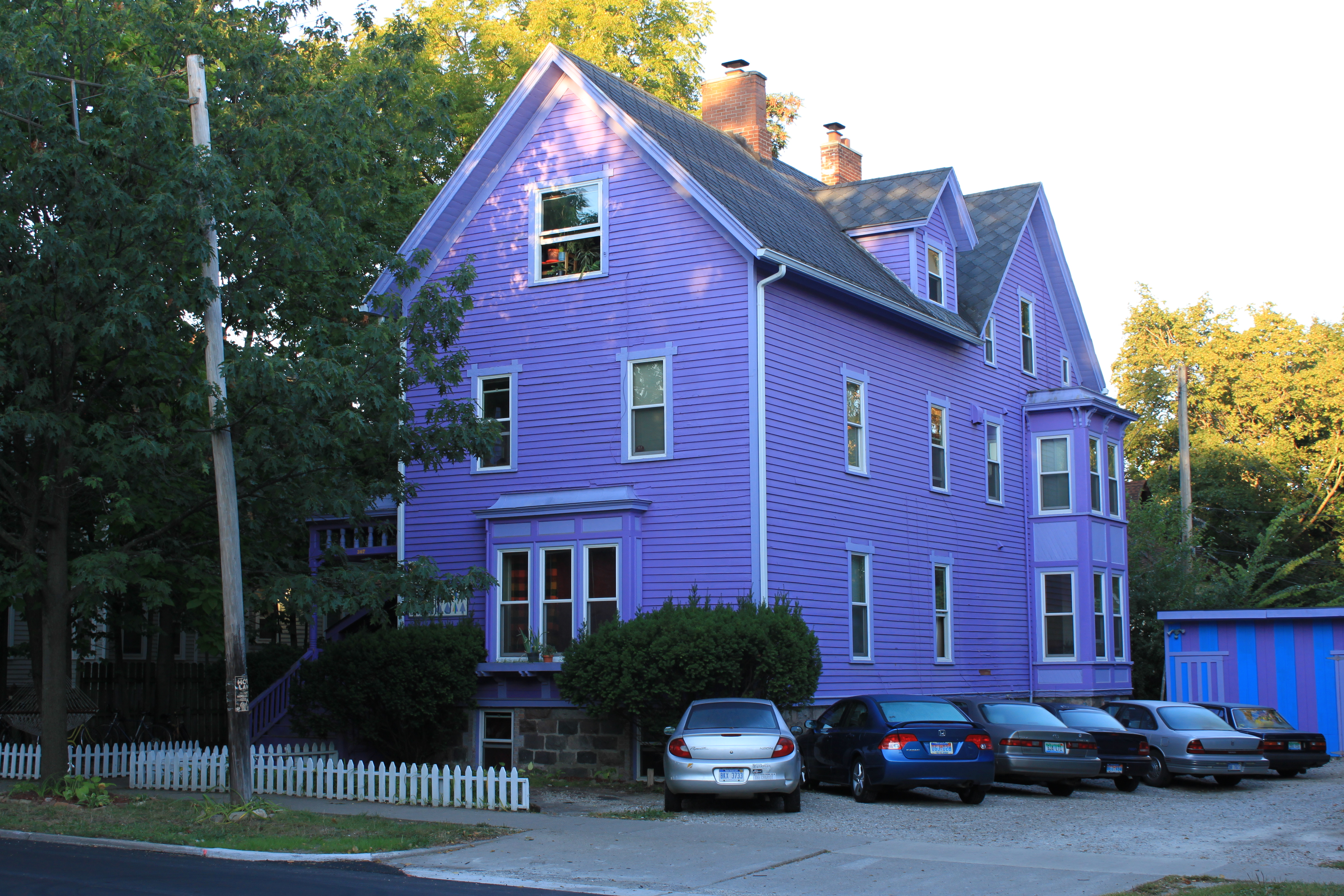 Minnie's Cooperative House, University of Michigan, 307 North State Street, Ann Arbor, Michigan